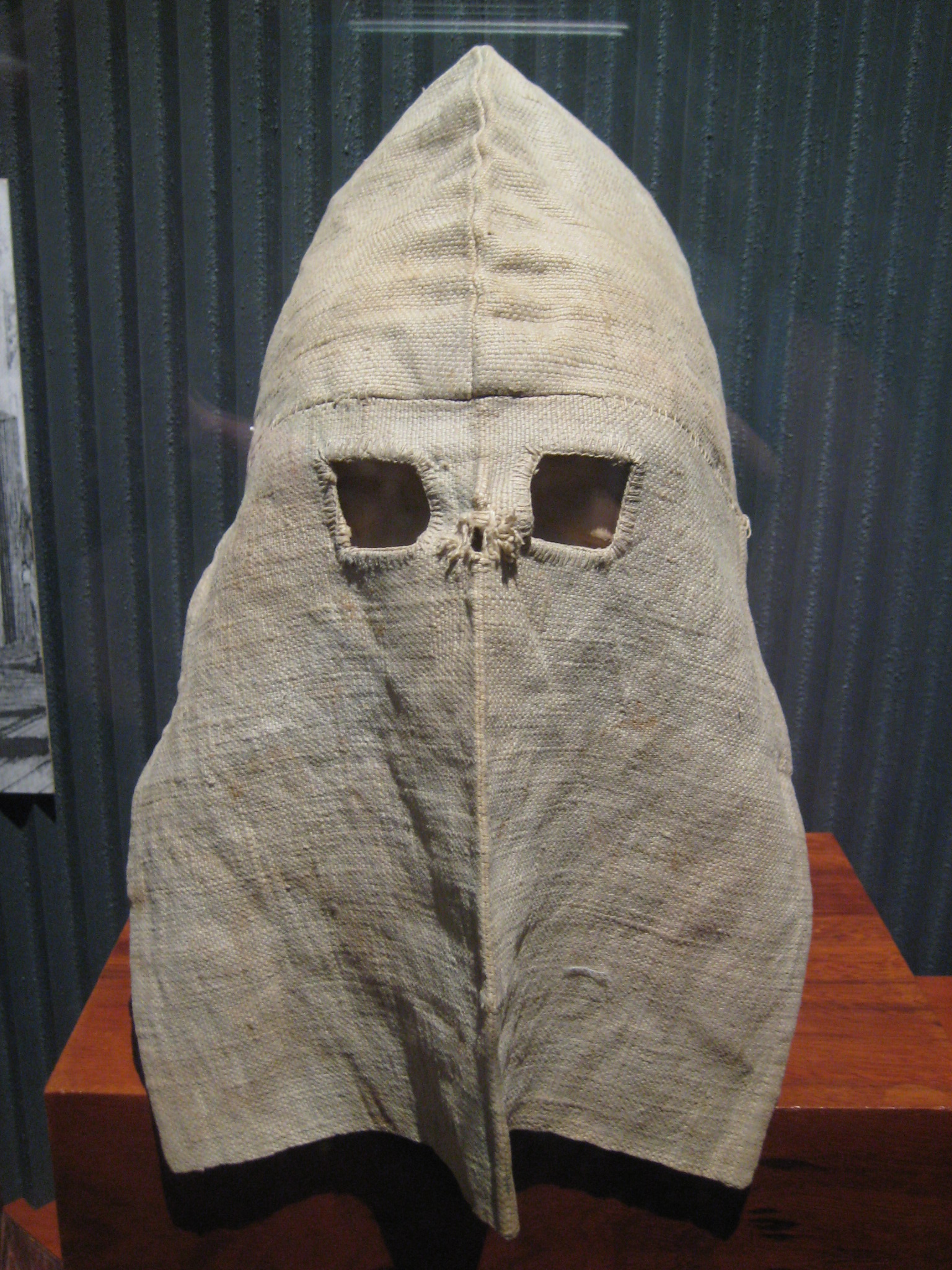 ca. 1875: Calico hoods were worn by all prisoners in solitary confinement when outside their cells: the Pentonville system of reform tried to isolate prisoners from others in all possible ways. Picture taken at the Old Melbourne Gaol, Australia.